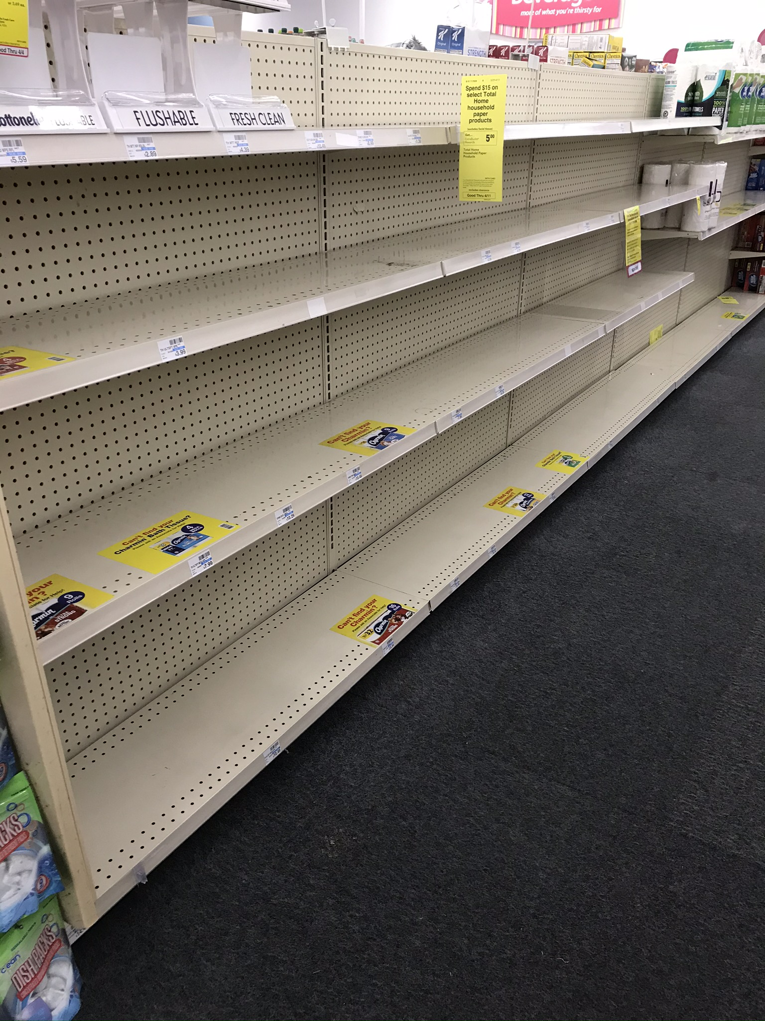 Empty paper towel shelves, CVS, Valdosta